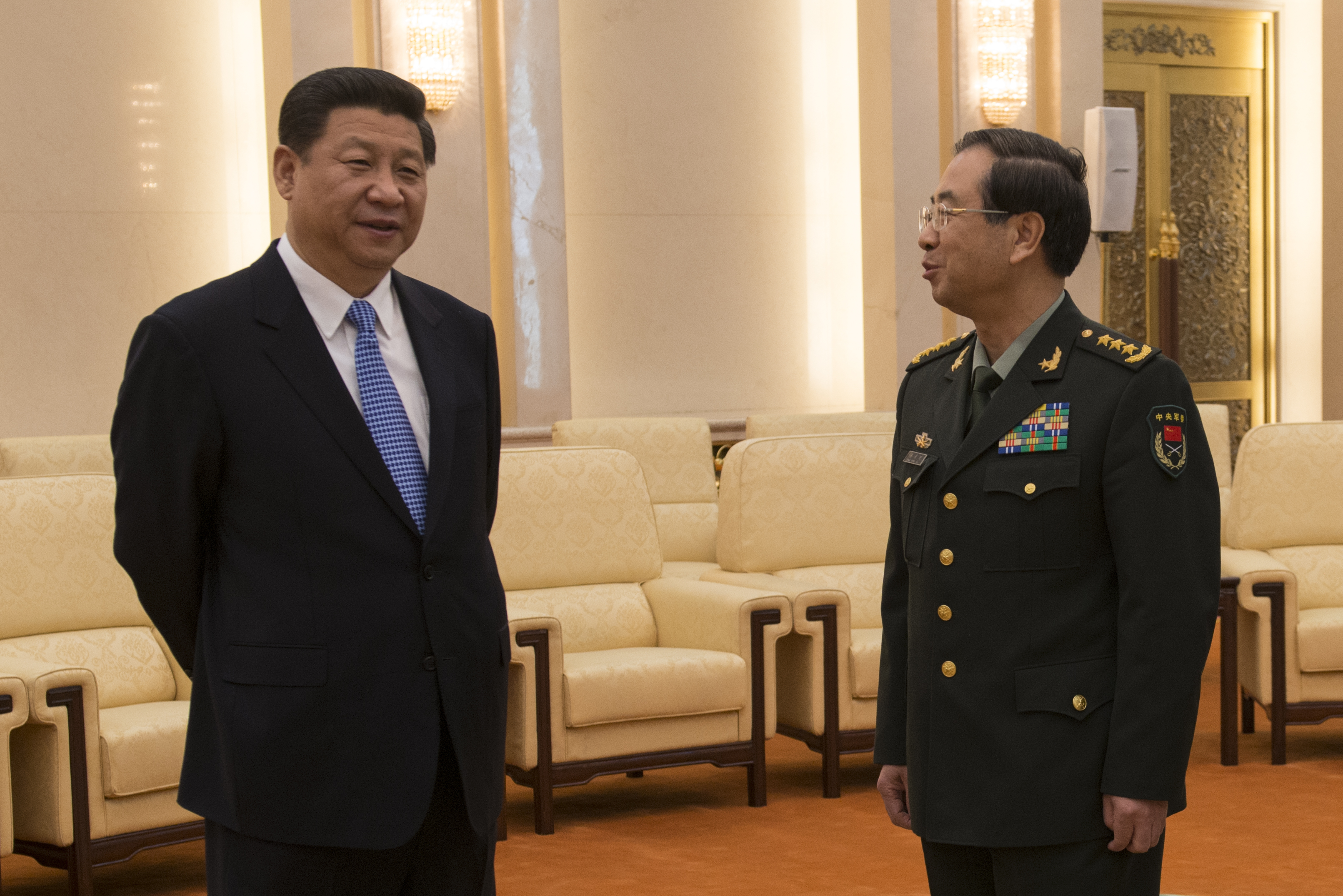 Chairman of the Central Military Commission Xi Jinping and Chinese Gen. Fang Fenghui, Chief of the Gen. Staff, before meeting Gen. Martin E. Dempsey, US chairman of the Joint Chiefs of Staff, in Beijing, China, Apr 23, 2013. DOD photo by D. Myles Cullen